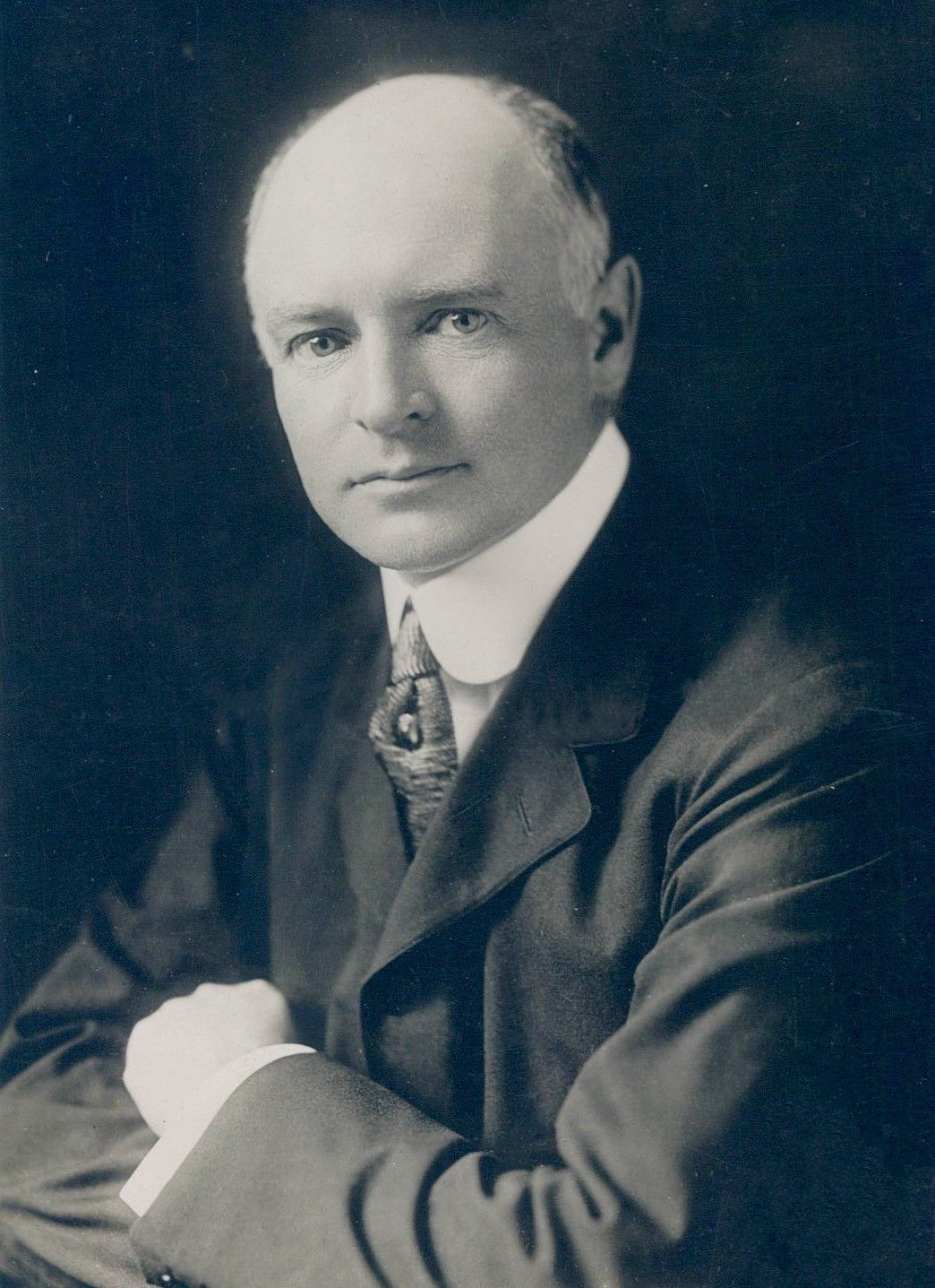 Fairfax Harrison, president of the Southern Railway, photographed in 1913.